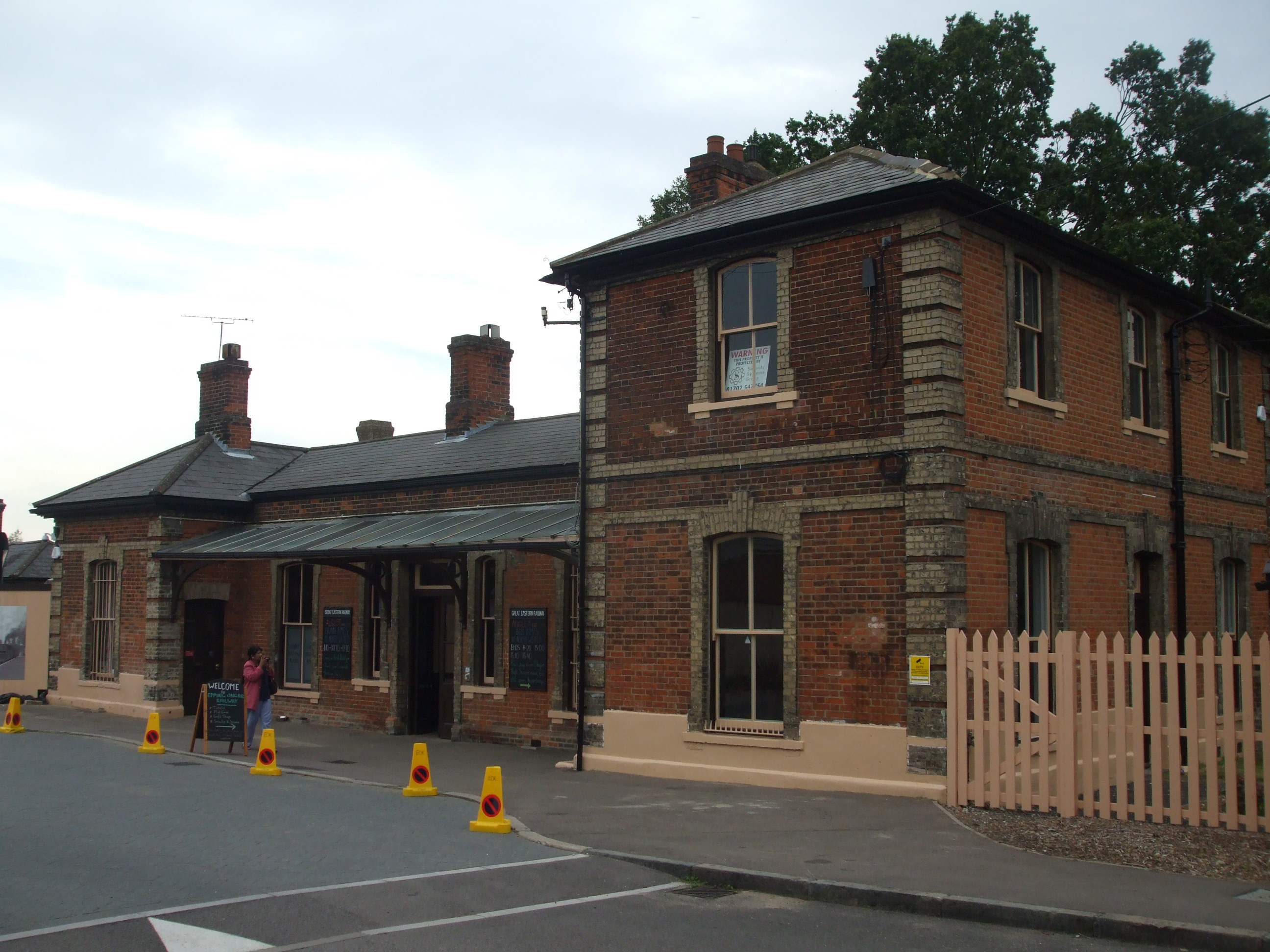 Ongar station building in September 2012